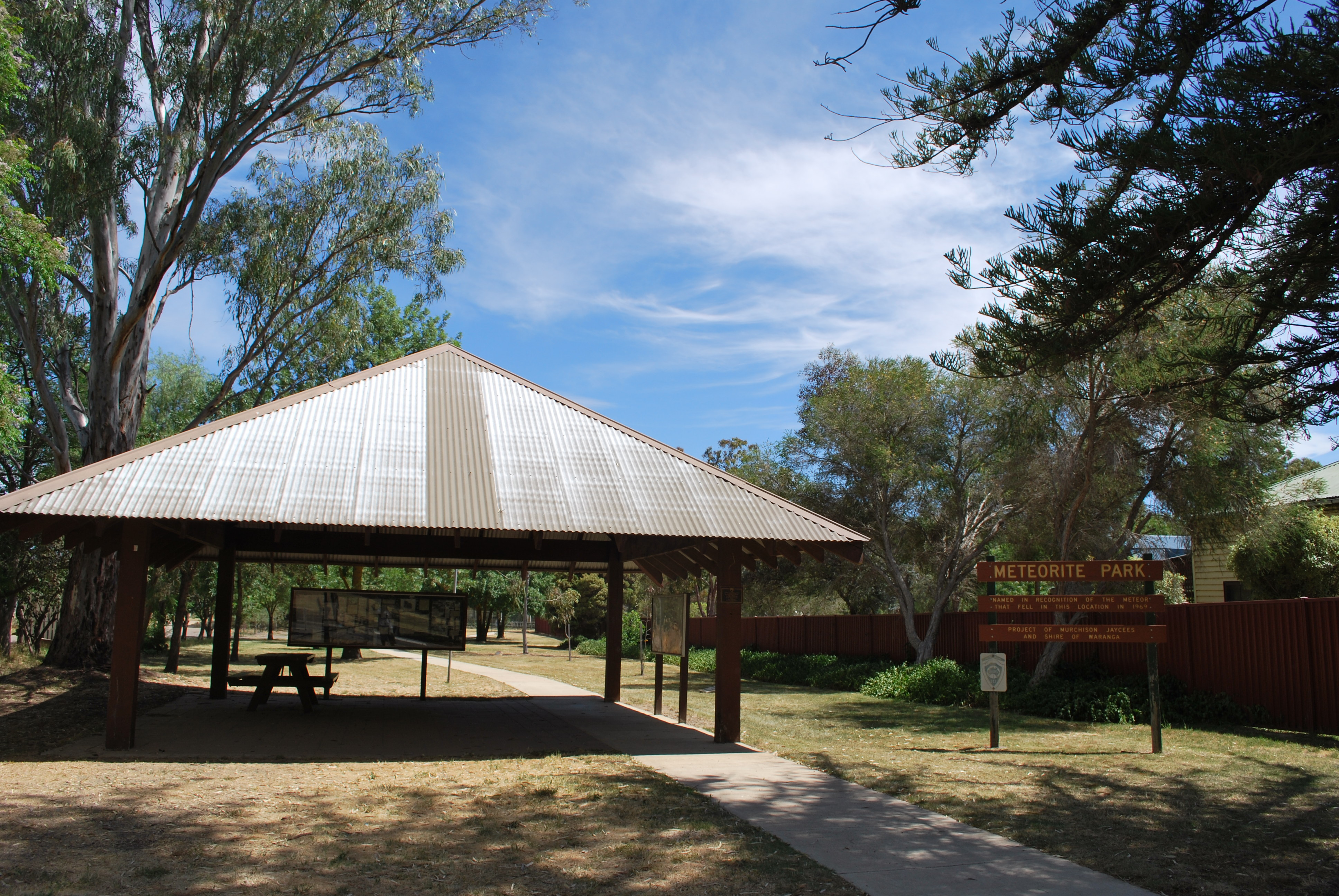 Meteorite Park at Murchison, Victoria